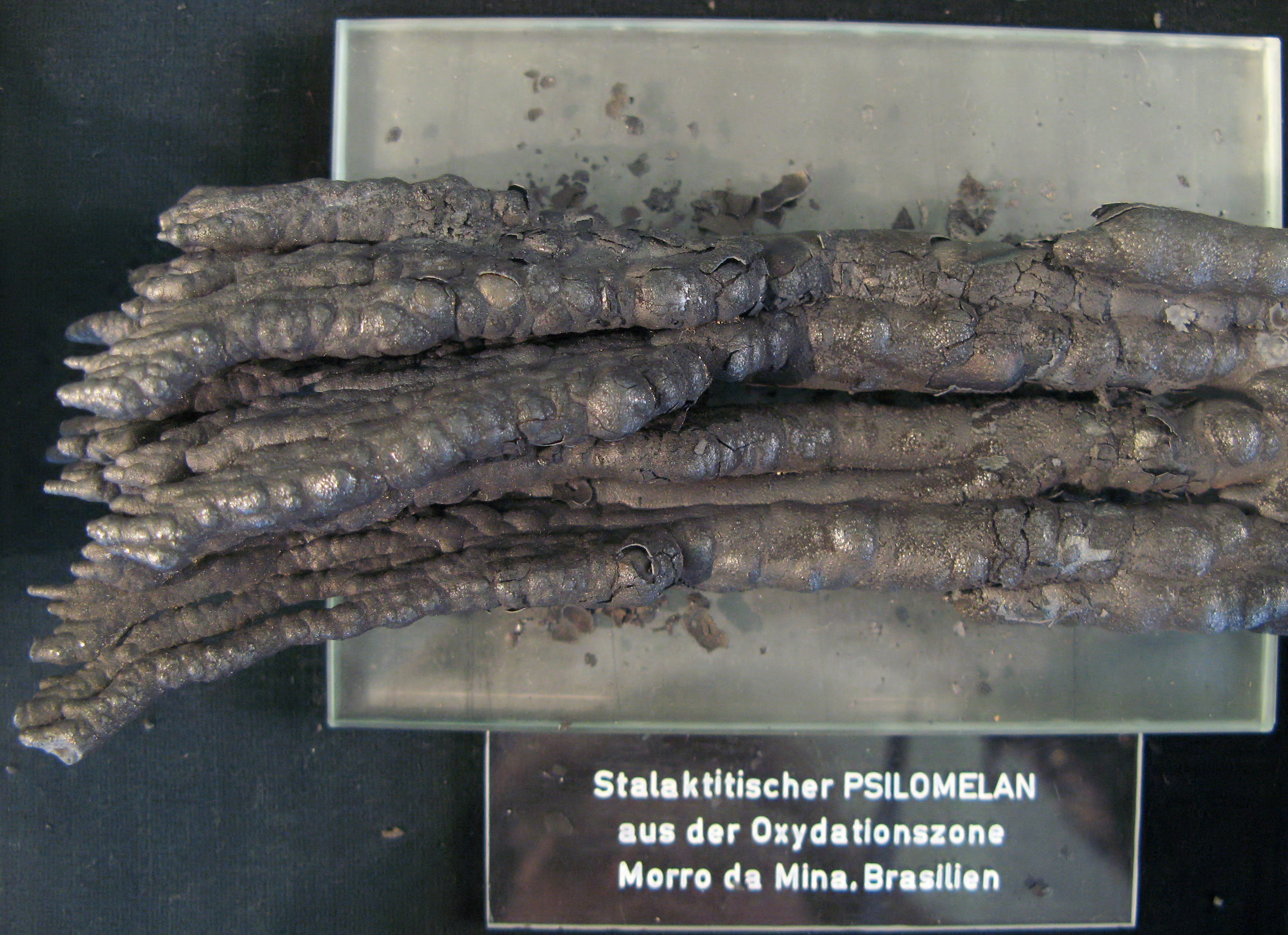 Psilomelane (stalactite form) - Locality: Morro da Mina, Brazil - Exposed in the Mineralogical Museum, Bonn, Germany